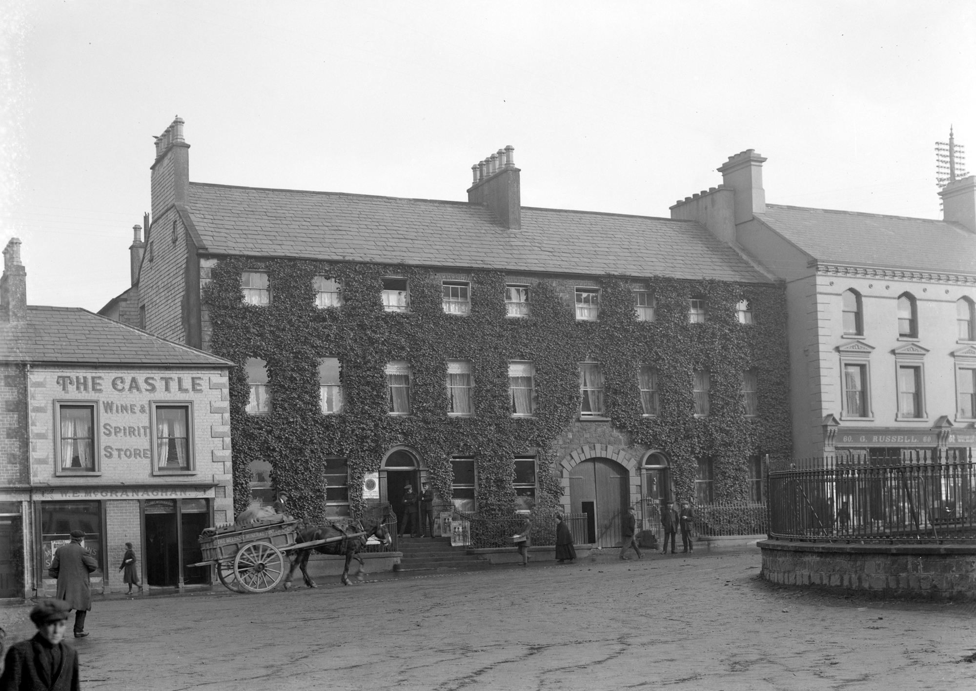 To the O'Connor collection today and a very interesting shot of Lurgan, Co. Armagh. A reasonably busy street scene with a pub, an hotel, pedestrians, police and a well loaded horse and cart on display. We thought the posters outside the hotel might be of some assistance in discovering the date. And indeed today's contributors were able to use the recruitment posters (outside what we learned was the local RIC station) to identify a possible upper date of around 1914. And, with the help of the census records for the business owners pictured, identified a possible lower date of around 1911. Great sleuthing as usual! Photographer: Fergus O’Connor Collection: Fergus O’Connor Collection Date: c.1910 (perhaps 1911-1914 per discussion) NLI Ref: OCO 158 You can also view this image, and many thousands of others, on the NLI’s catalogue at